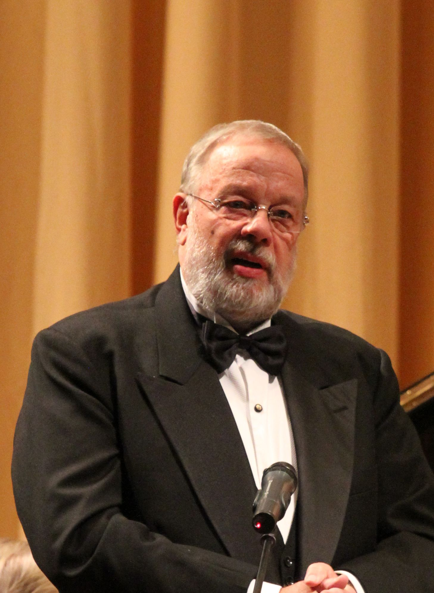 Matti Salminen, a Finnish singer